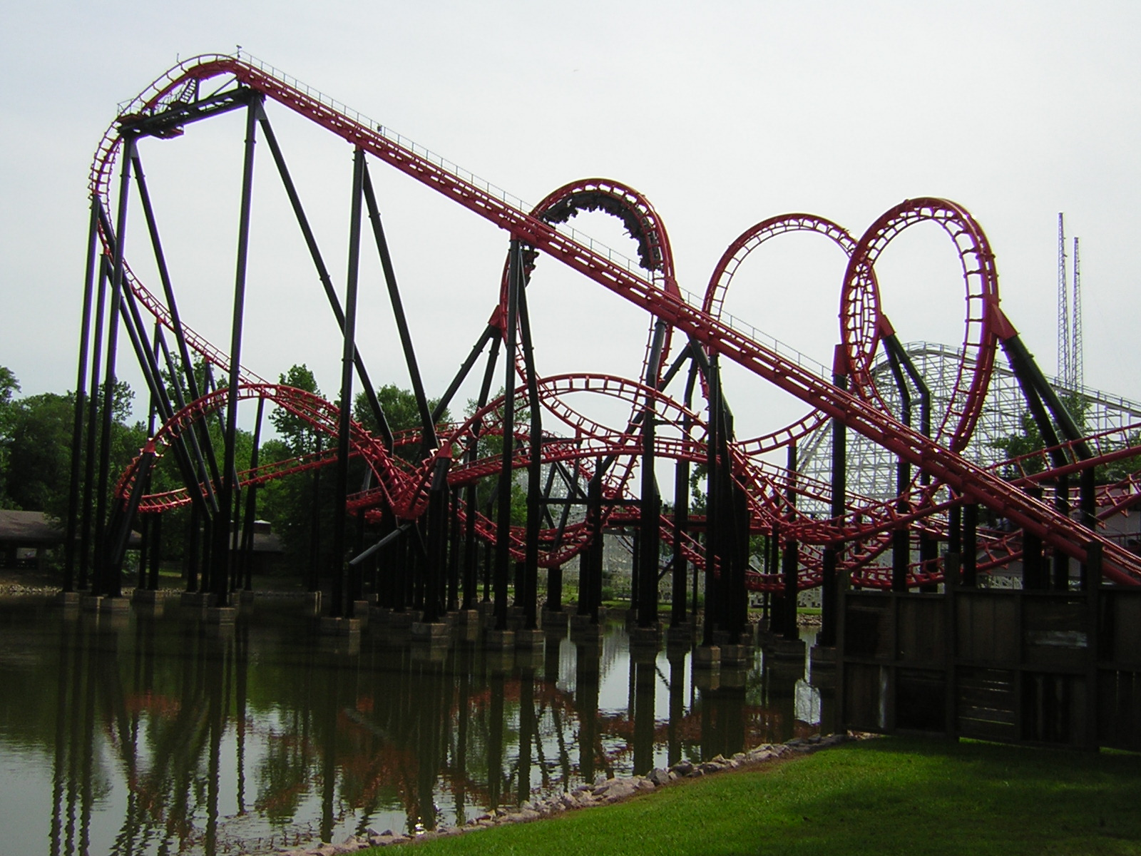 Ninja, steel roller coaster at Six Flags Over Georgia, USA.